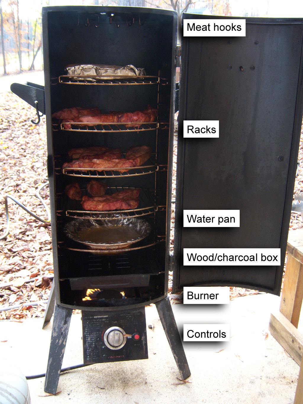 Image of a propane smoker in use. Diagrams the elements.